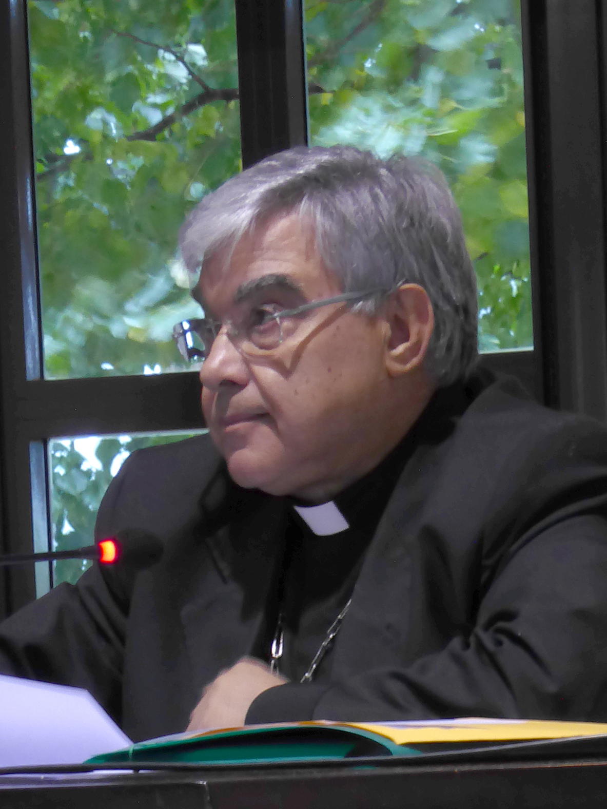 Bishop Marcello Semeraro during the Italian forum of LGBT christians in Albano Laziale